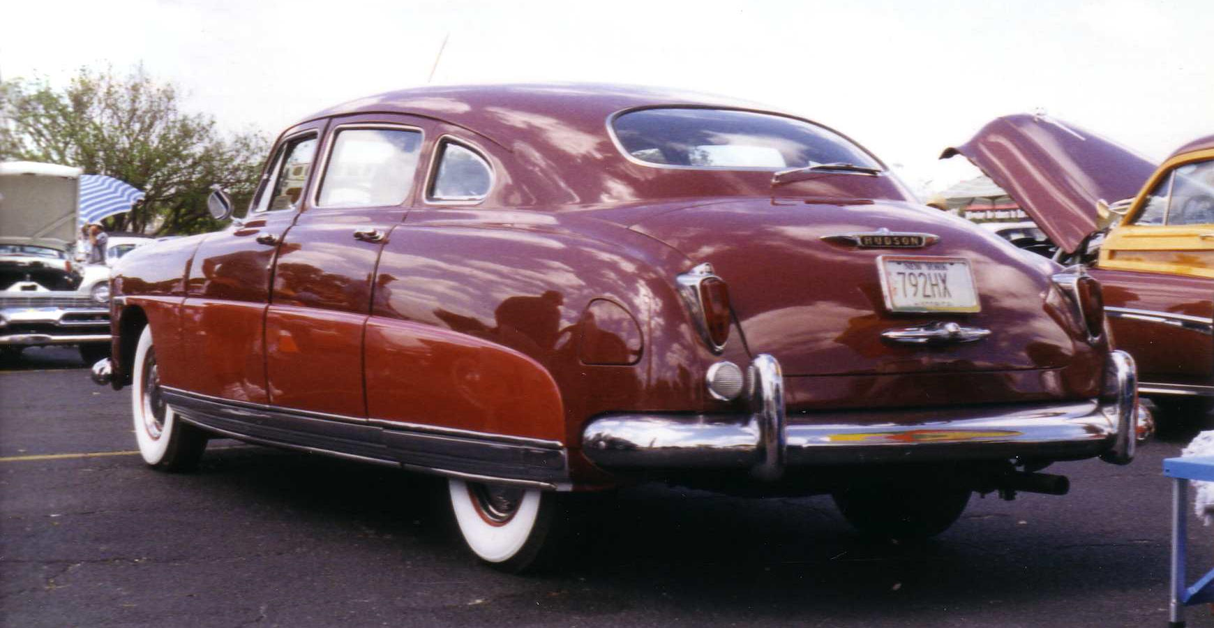 Hudson Commodore four-door "Step Down" sedan finished in two-tone burgundy red. Picture taken at an AACA car show.